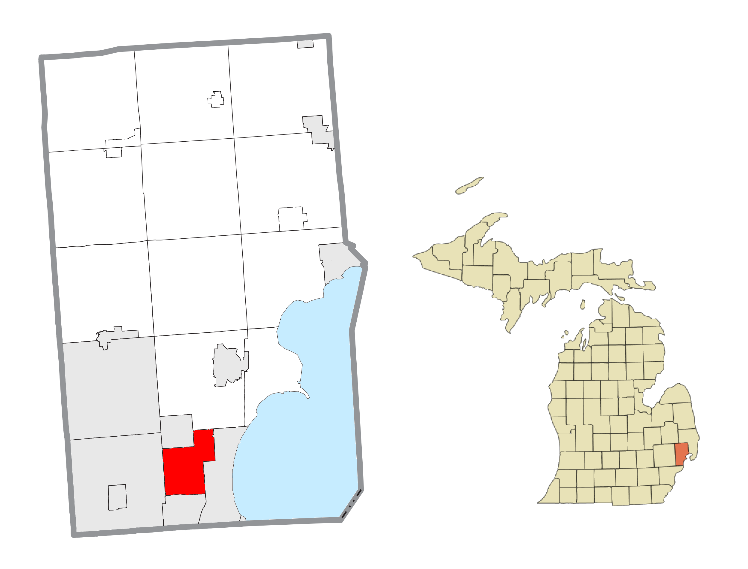 Roseville, MI